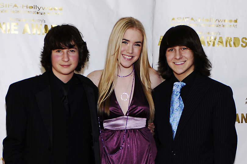 Monster House lead voice cast Sam Lerner, Spencer Locke, and Mitchel Musso at the 2006 Annie Awards red carpet at the Alex Theatre in Glendale, California.